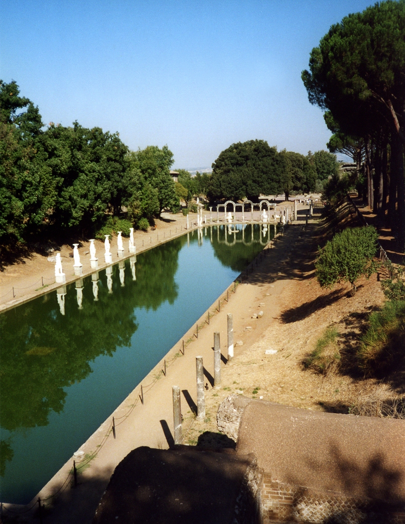 The Canopus at Villa Adriana near Tivoli in Italy.